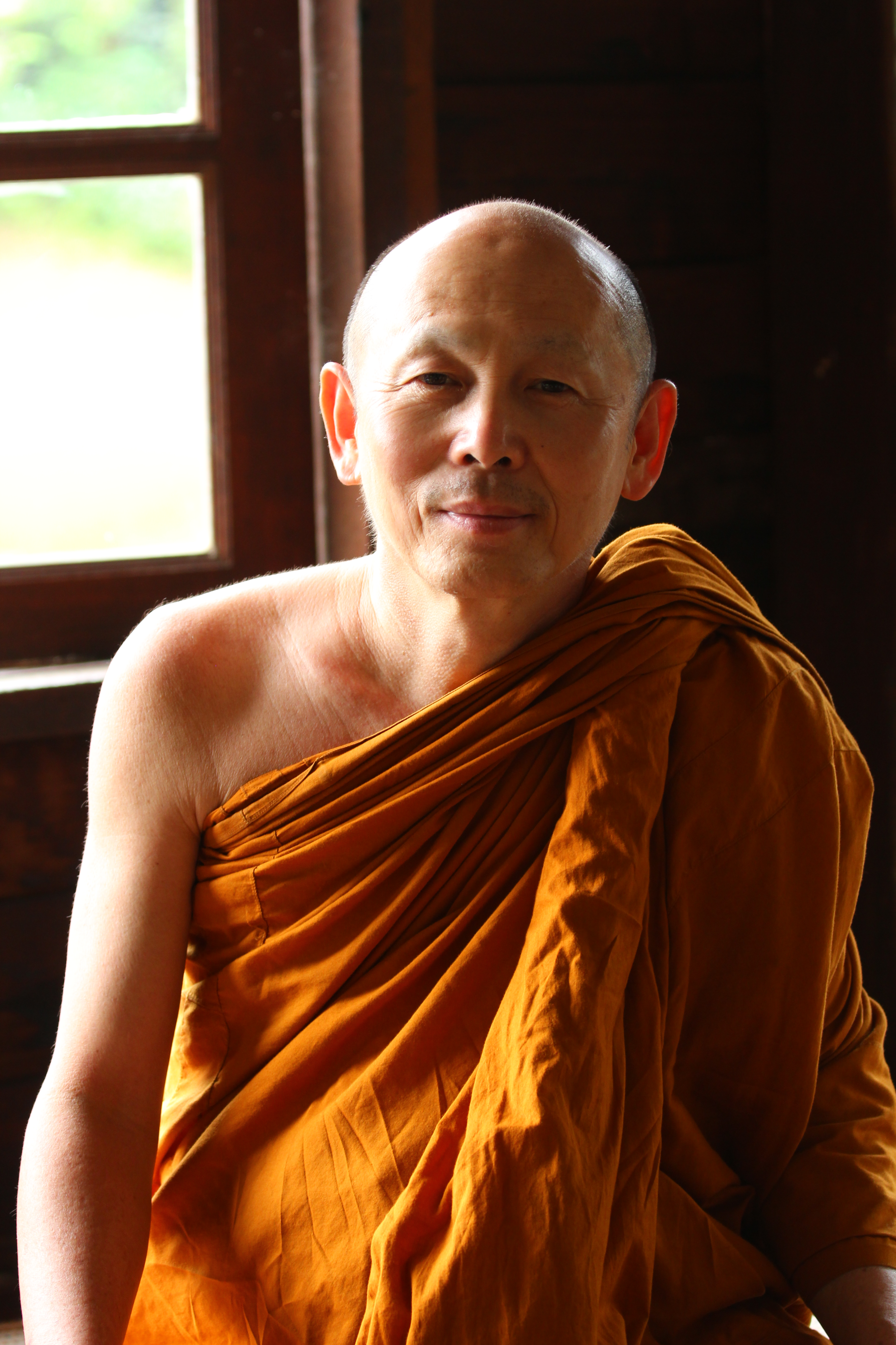 Luang Pho Kam Khan, one of the Dhammayatra of Lampatao River Basin founder